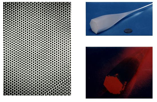 Nanochannel glass materials are complex glass structures containing large numbers of parallel hollow channels. In its simplest form, the hollow channels are arranged in geometric arrays with packing densities as great as 1011 channels/cm2. Channel dimensions are controllable from microns to tens of nanometers, while retaining excellent channel uniformity. Exact replicas of the channel glass can be made from a variety of materials. This is a low cost method for creating identical structures with nanoscale features in large numbers.